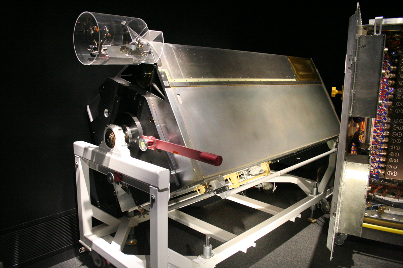 COSTAR module on display at the National Air and Space Museum in Washington DC